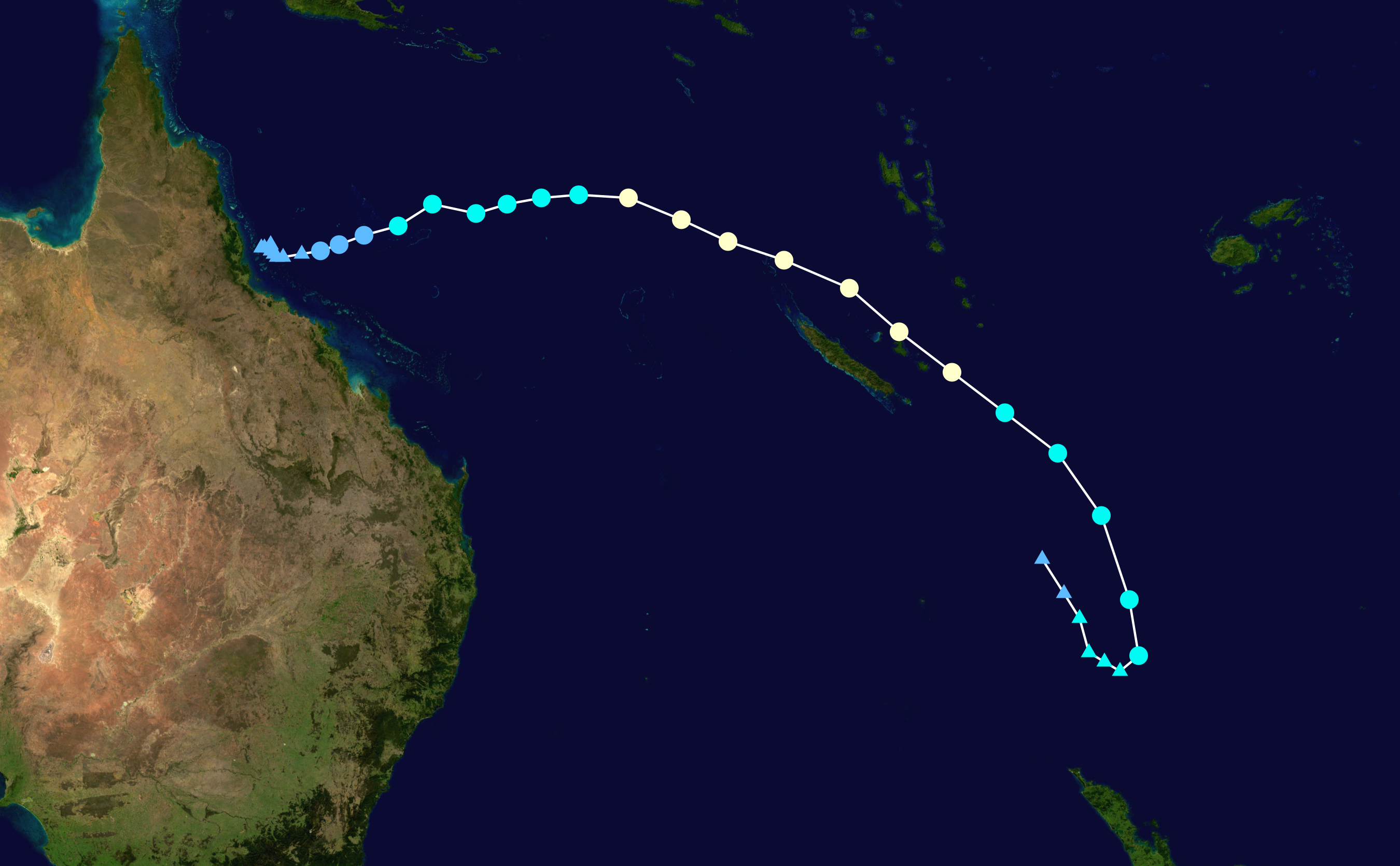 Cyclone Jim (2006) track. Uses the color scheme from the Saffir-Simpson Hurricane Scale.